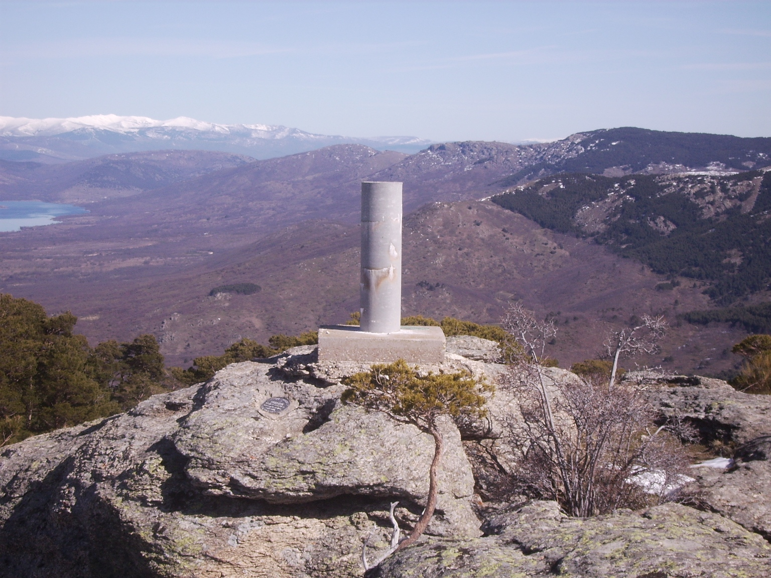 Summit of Cabeza Mediana (Guadarrama mountain range, central Spain).